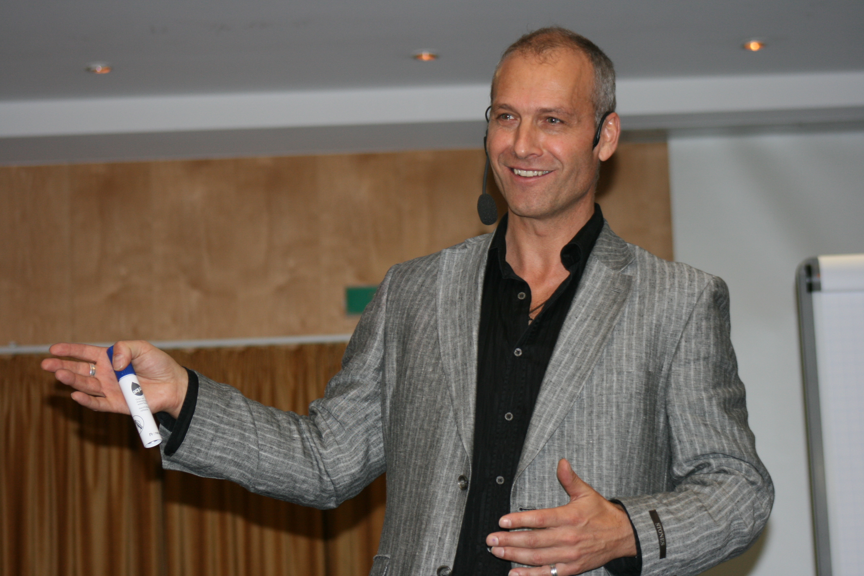 Matthias Poehm on stage holding the seminar 'Public speaking event of the superlative' in Munich, Germany